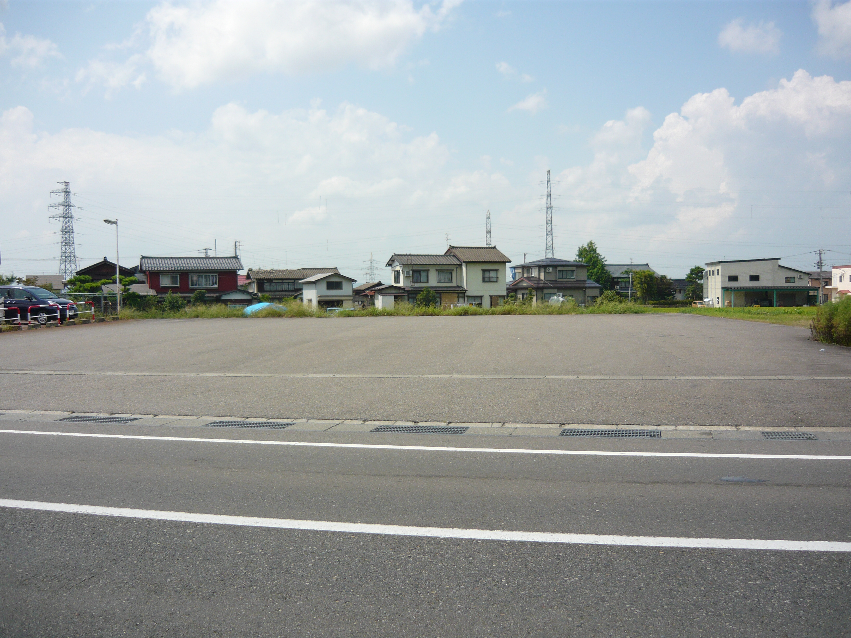 Remains of Urase Station Tochio Line in 2008